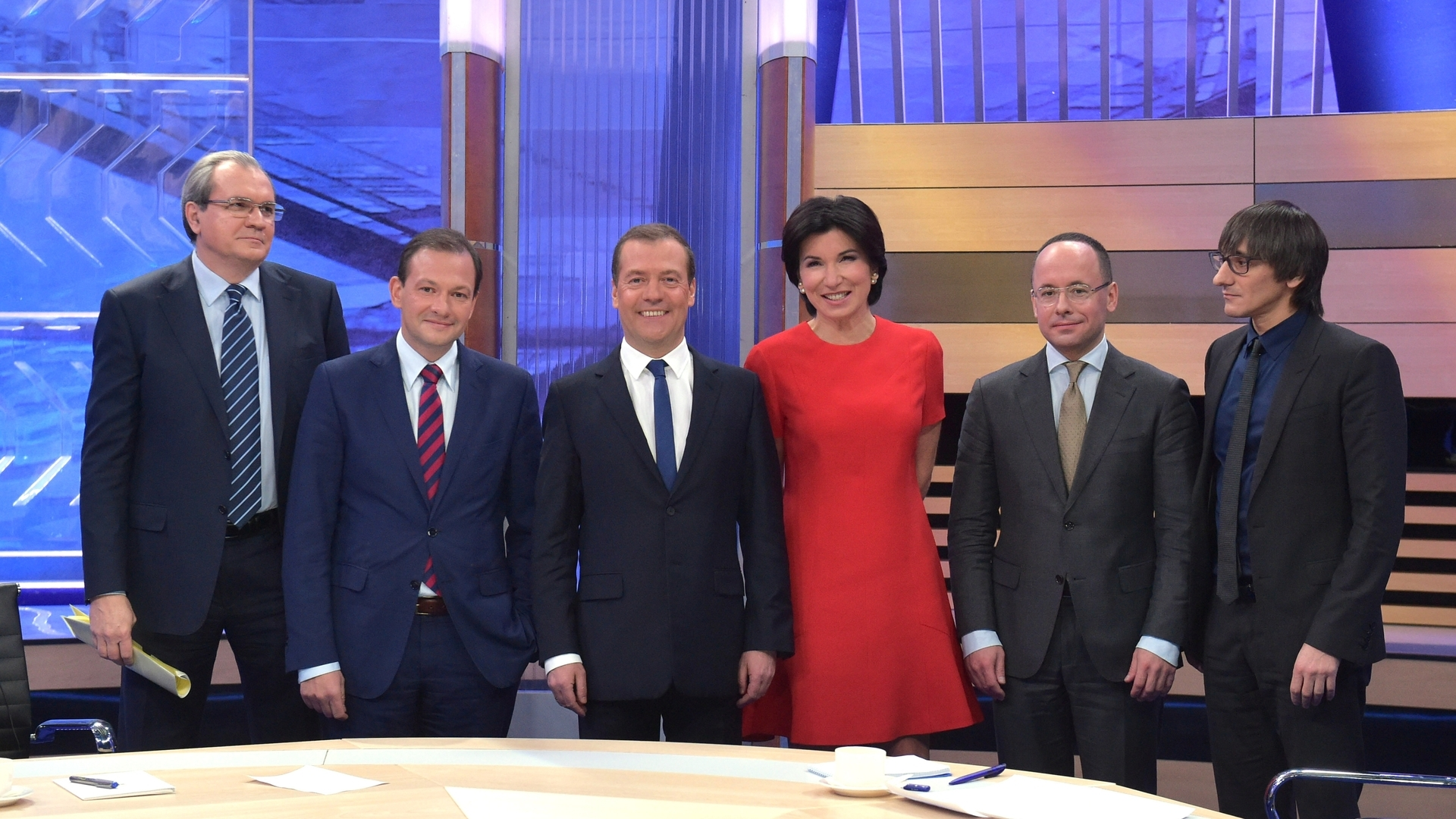 Dmitry Medvedev's interview with Russian journalists. From left to right: Valery Fadeyev (Channel One), Sergey Brilyov (Russia-1), Dmitry Medvedev, Irada Zeynalova (NTV), Igor Poletayev (RBK) and Mikhail Fishman (Dozhd).